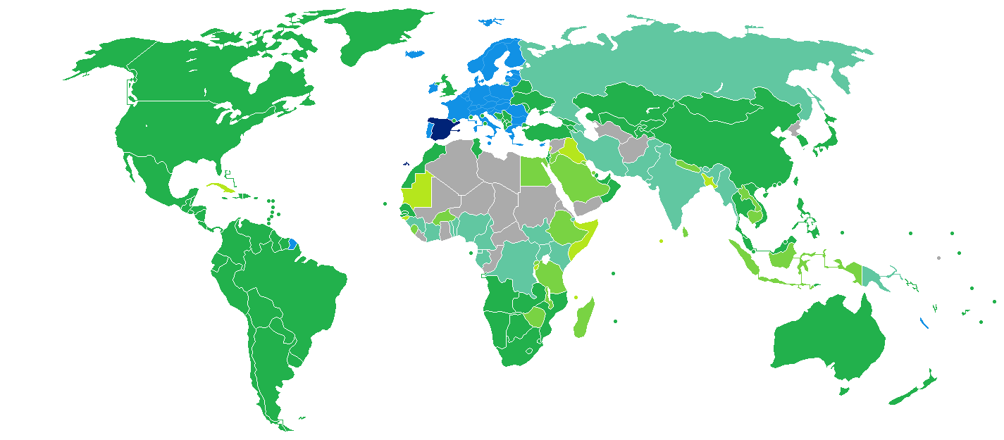 Visa requirements for Spanish citizens Spain Freedom of movement Visa not required Visa on arrival eVisa Visa available both on arrival or online Visa required prior to arrival